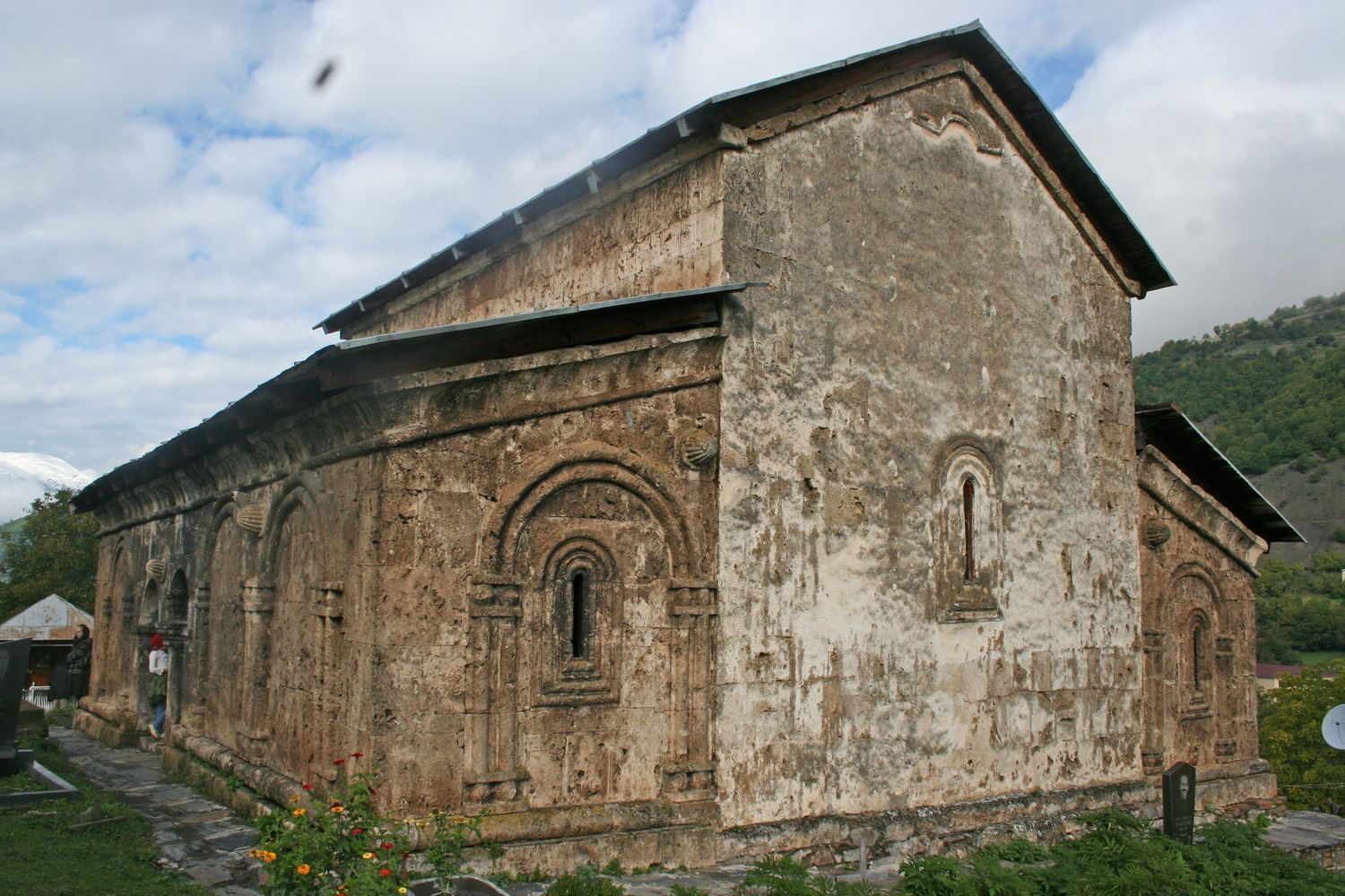 St Ionna church in Latali